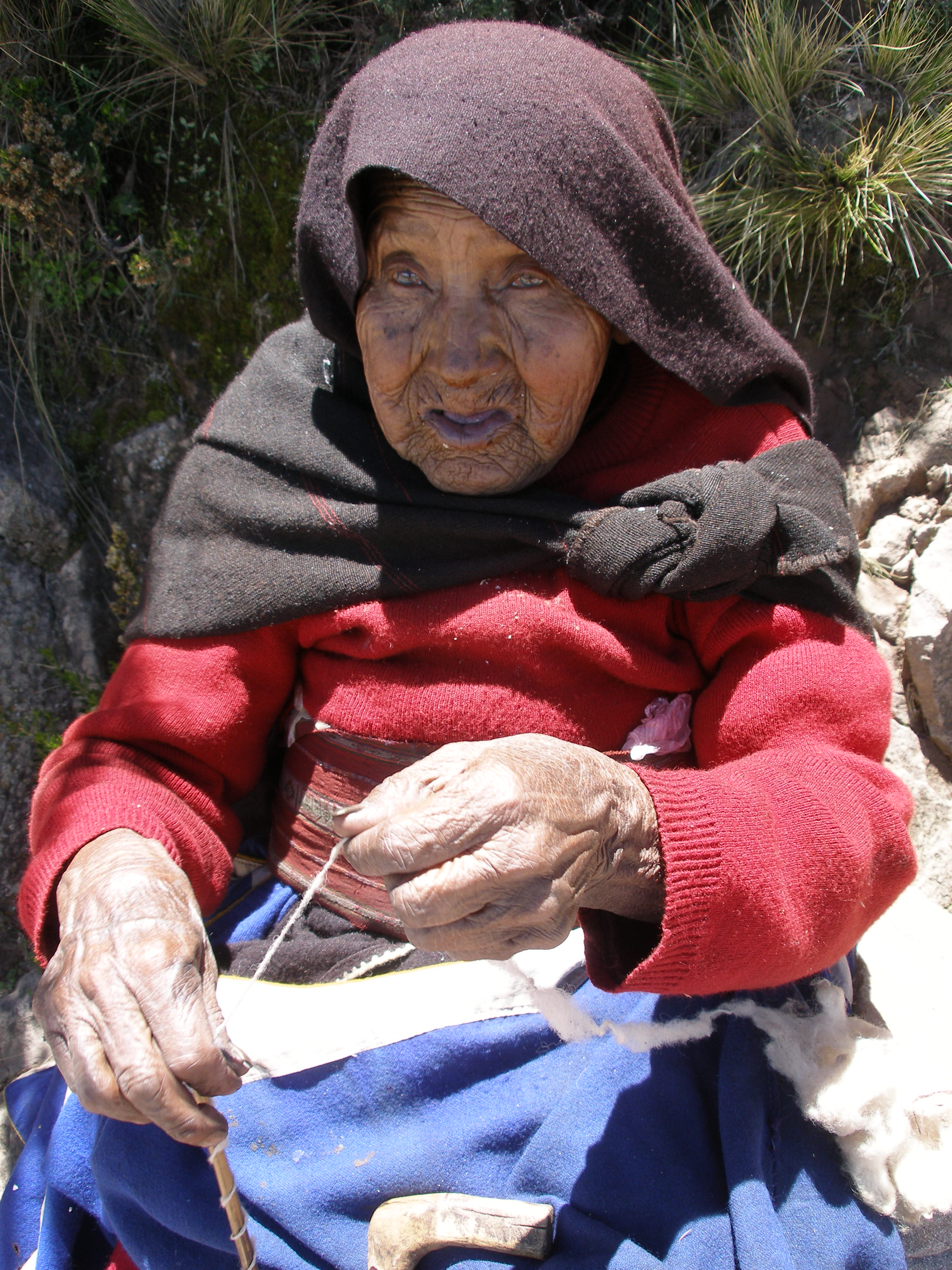 A blind elderly woman spinning wool by hand in Taquile, Peru.